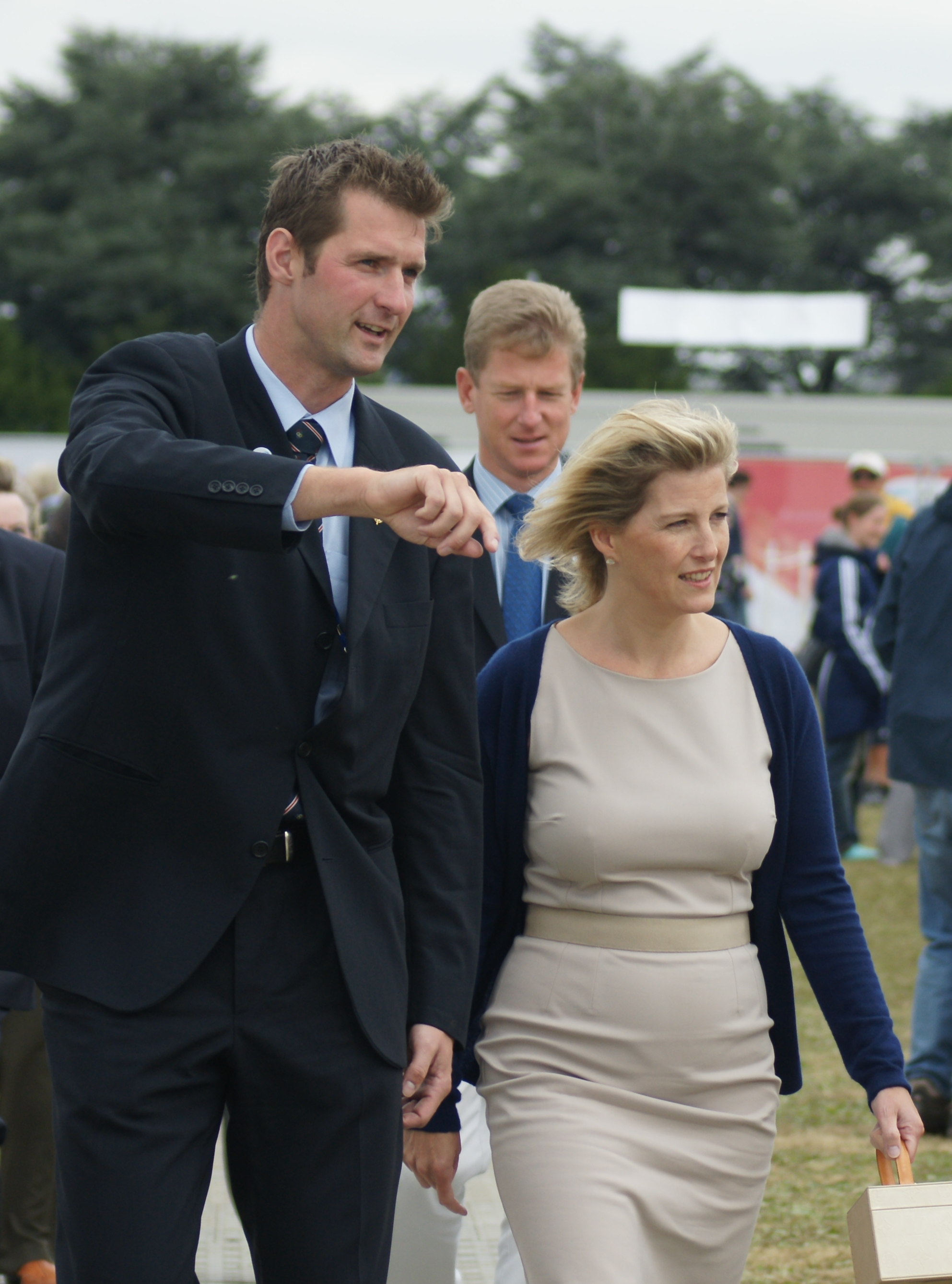 The Countess of Wessex, accompanied by Simon Mason, President of England Hockey, at the England v Germany WCT Bronze Medal Match.